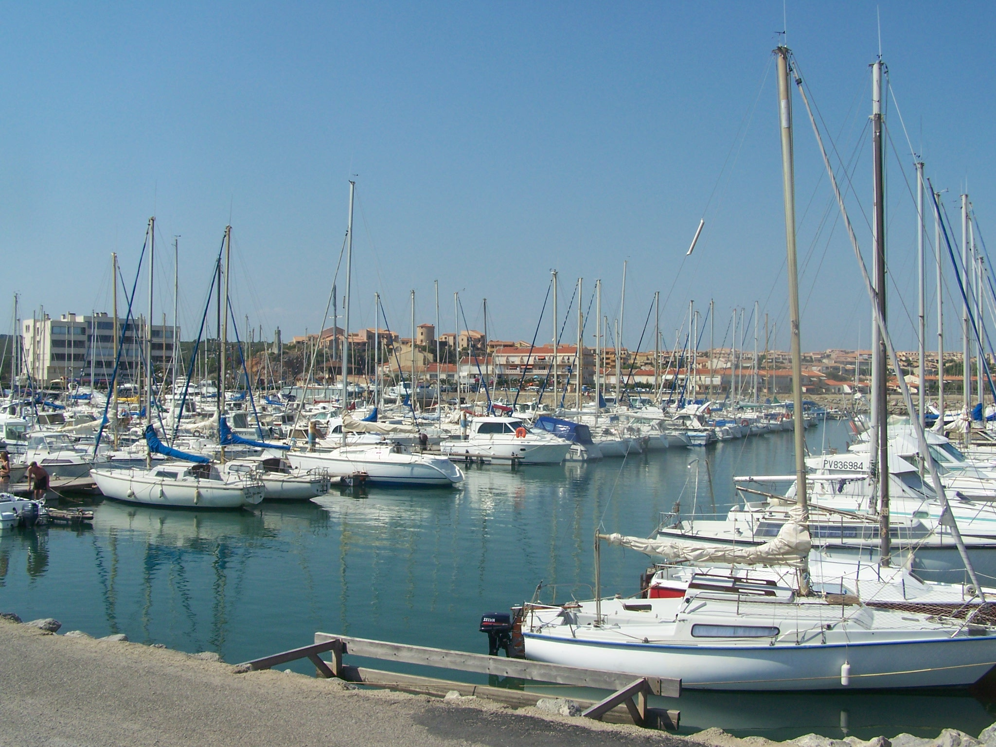 Harbour of Narbonne-Plage in Aude, France.